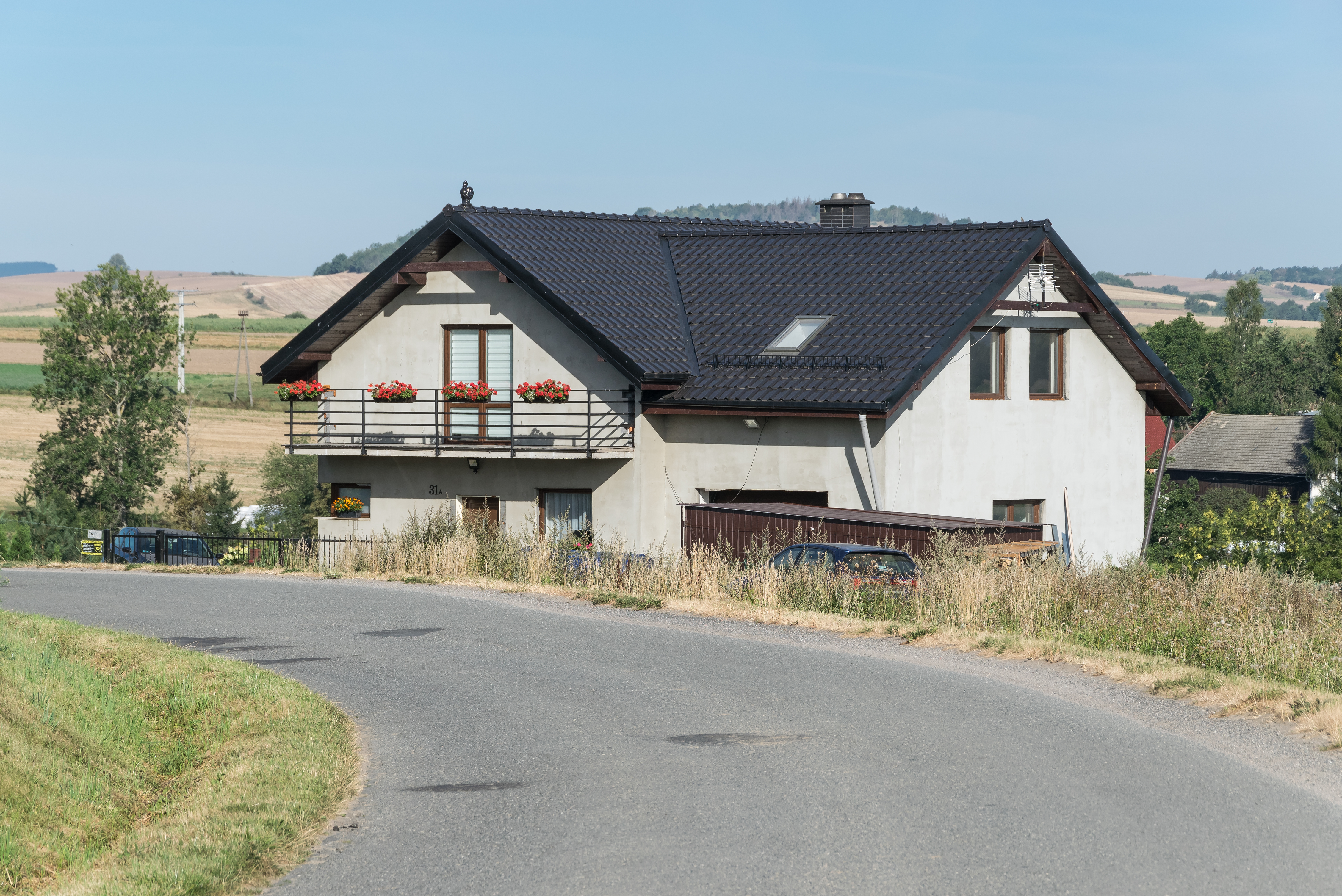 House No. 31A in Ruszowice